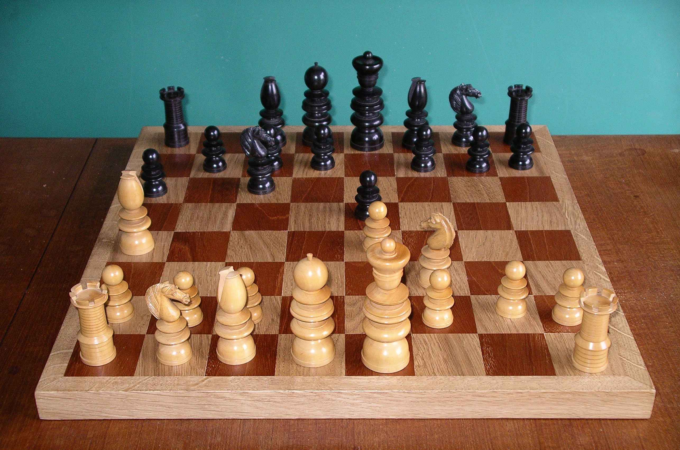 photo taken by me of one of my chess sets on 4 Oct 2006. The squares on the board are each 5cm square. I think that the black pieces are ebony and the white pieces are box wood. The black pieces are heavier than the white pieces. Comment : The pieces are in the St. George style.